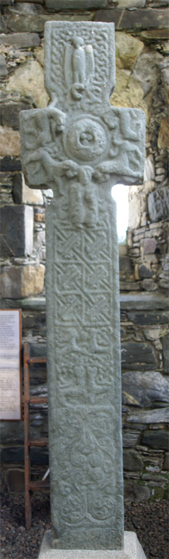 Keills Chapel, Argyll and Bute, Scotland - Keills Cross